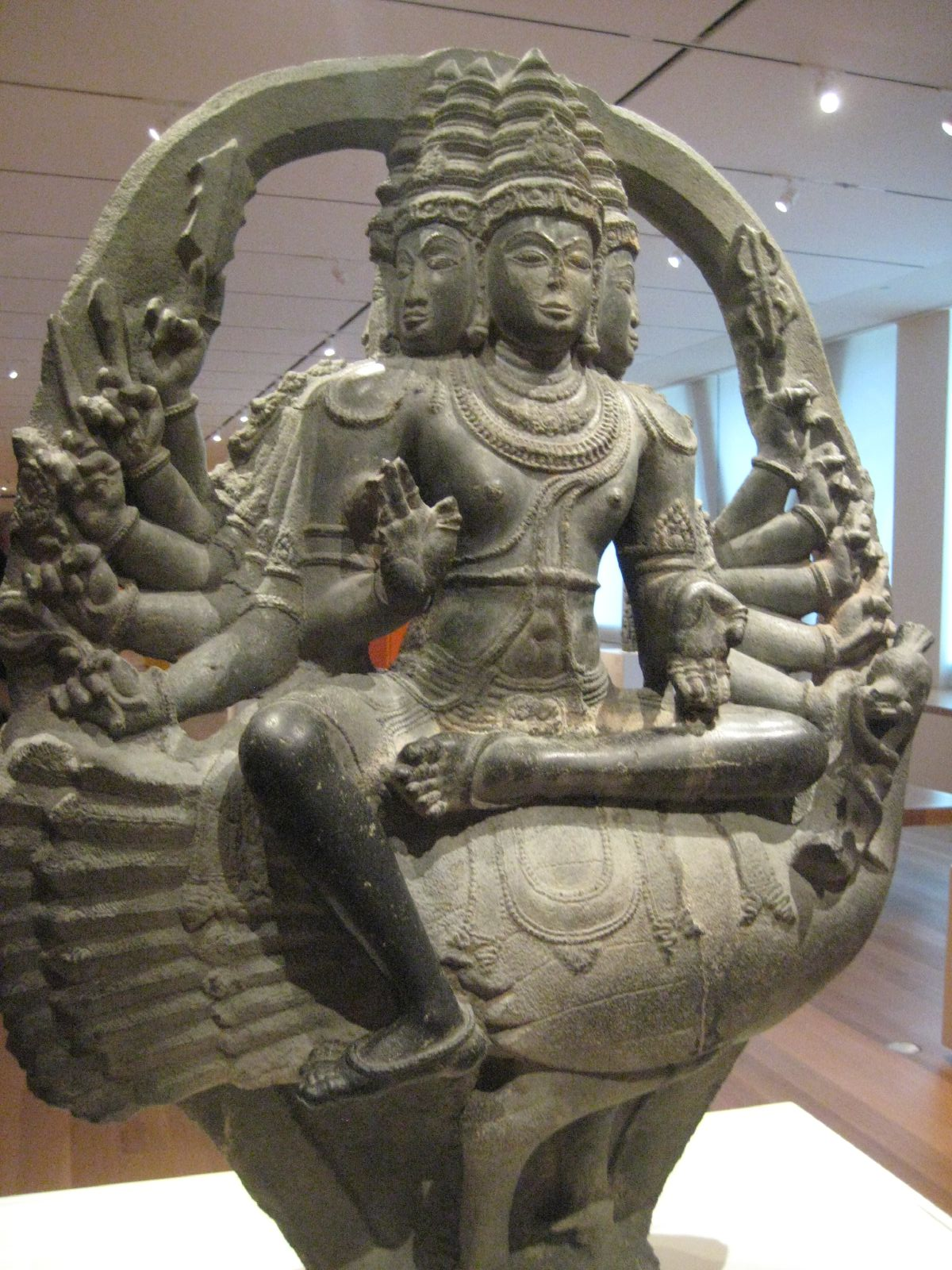 India, Andhra Pradesh, Madanapalle Ganga period c. 12th century Granite Item number: 1962.203